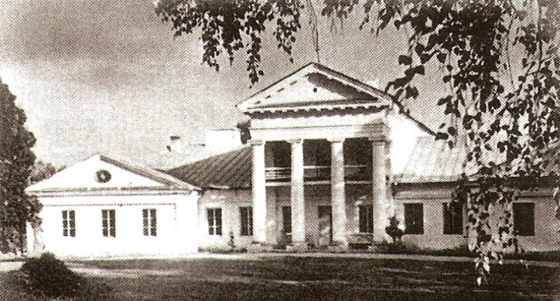 Dukstas palace (Lithuania)